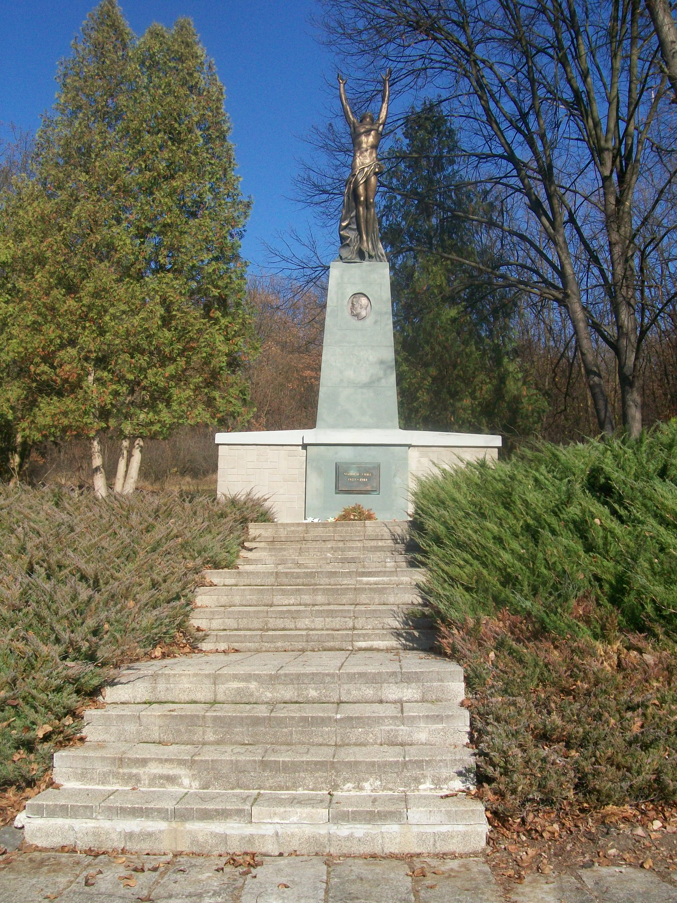 Tomb with a monument of the writer Imre MadáchSlovenčina: Hrobka s pomníkom spisovateľa Imre Madách